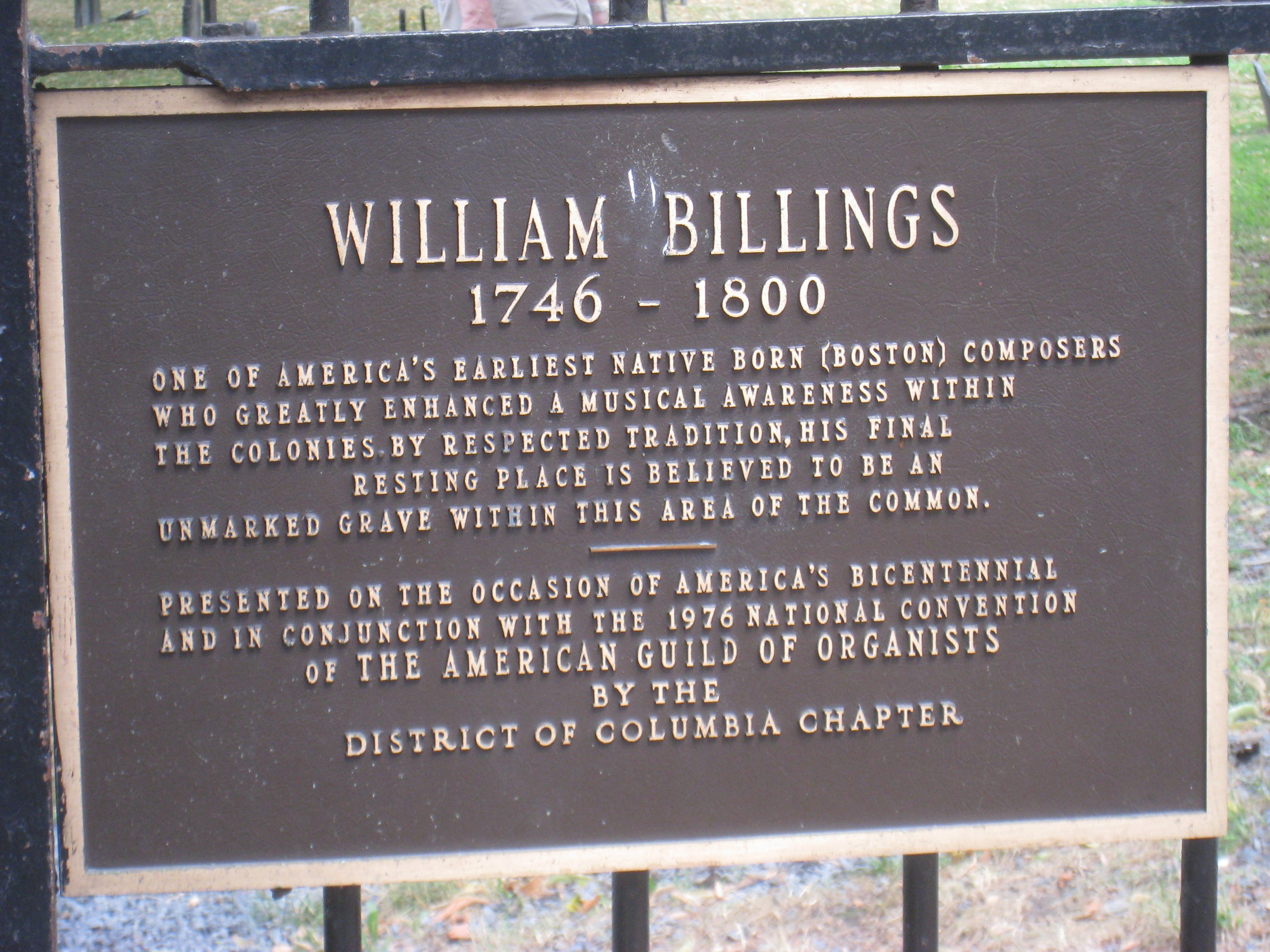 William Billings plaque, Boston Common, Boston, Massachusetts, USA.